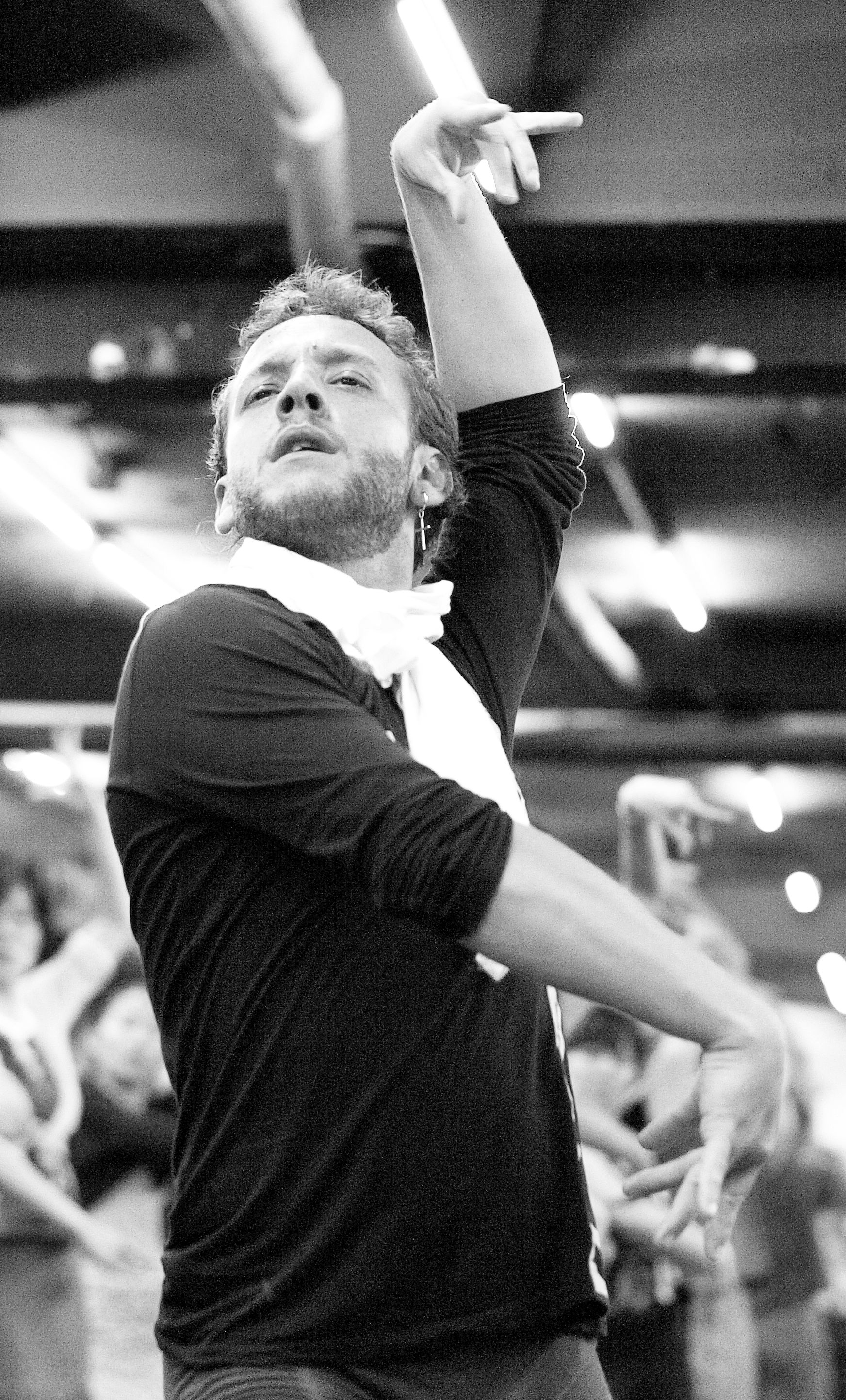 Manuel Linan